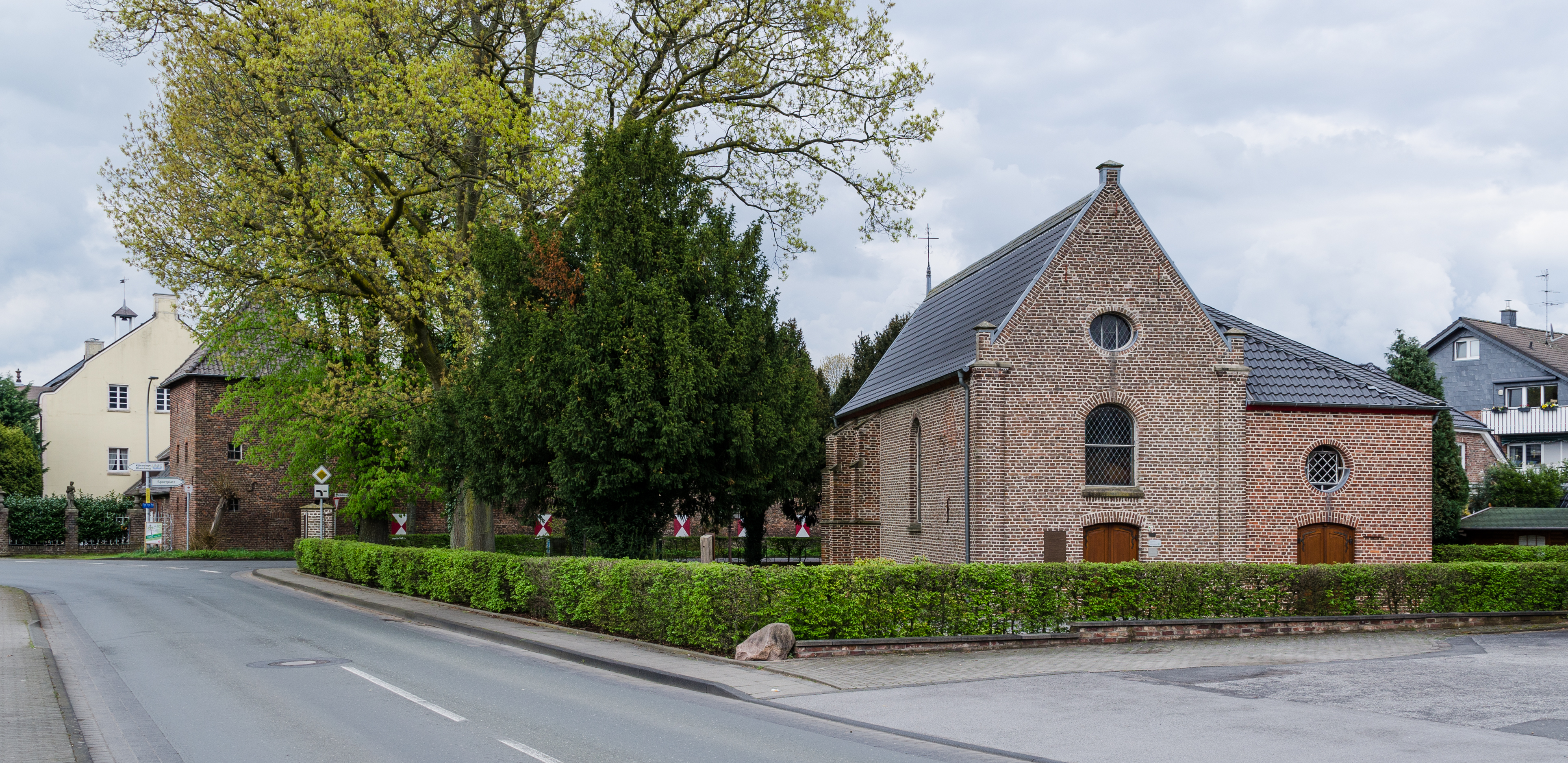 Rheinberg (North Rhine-Westphalia, Germany) – district Ossenberg – castle chapel